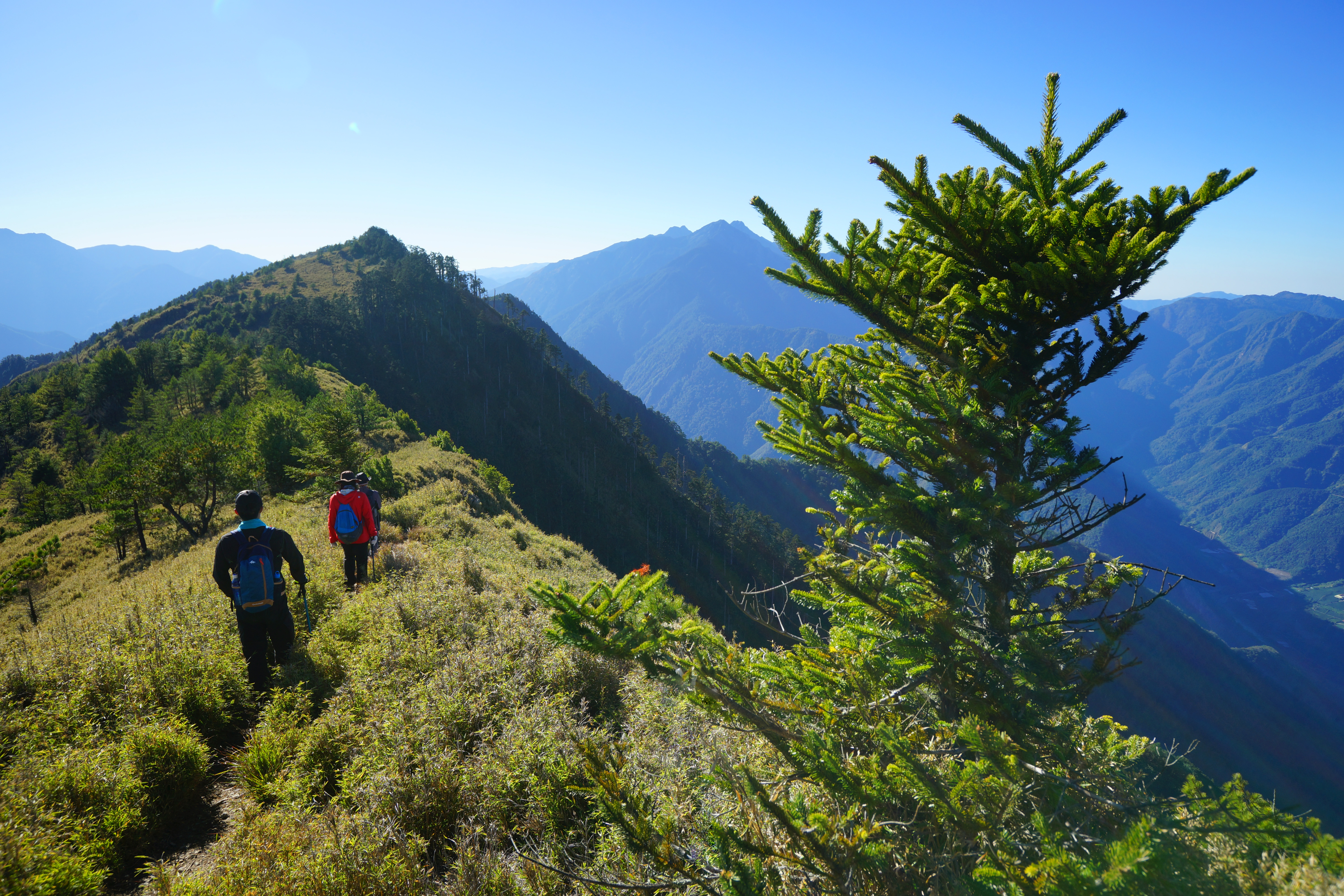 Mt. Junda (Jundashan), 3263m